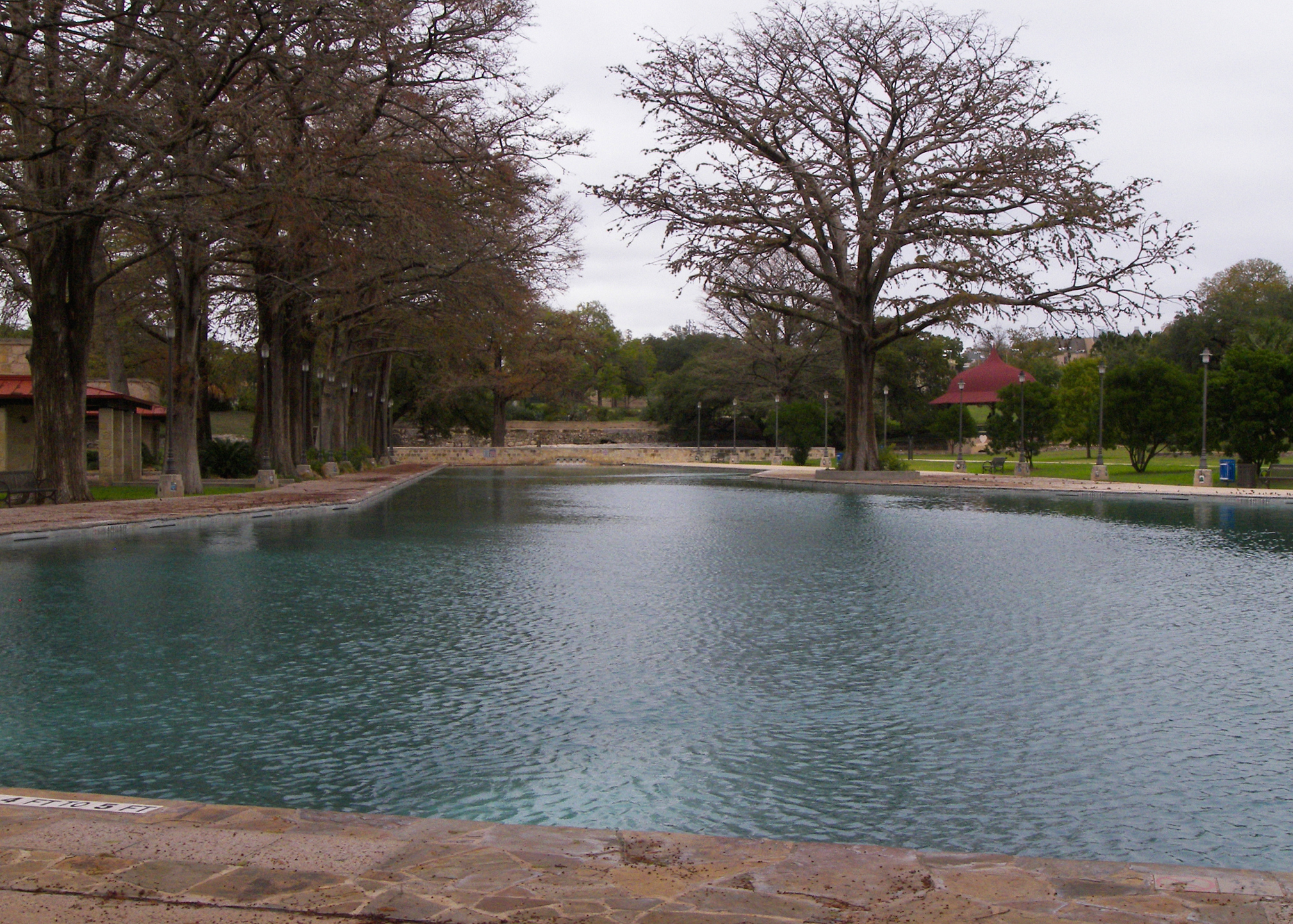 The San Pedro Park swimming pool located in San Pedro Park, San Antonio, Texas, United States.